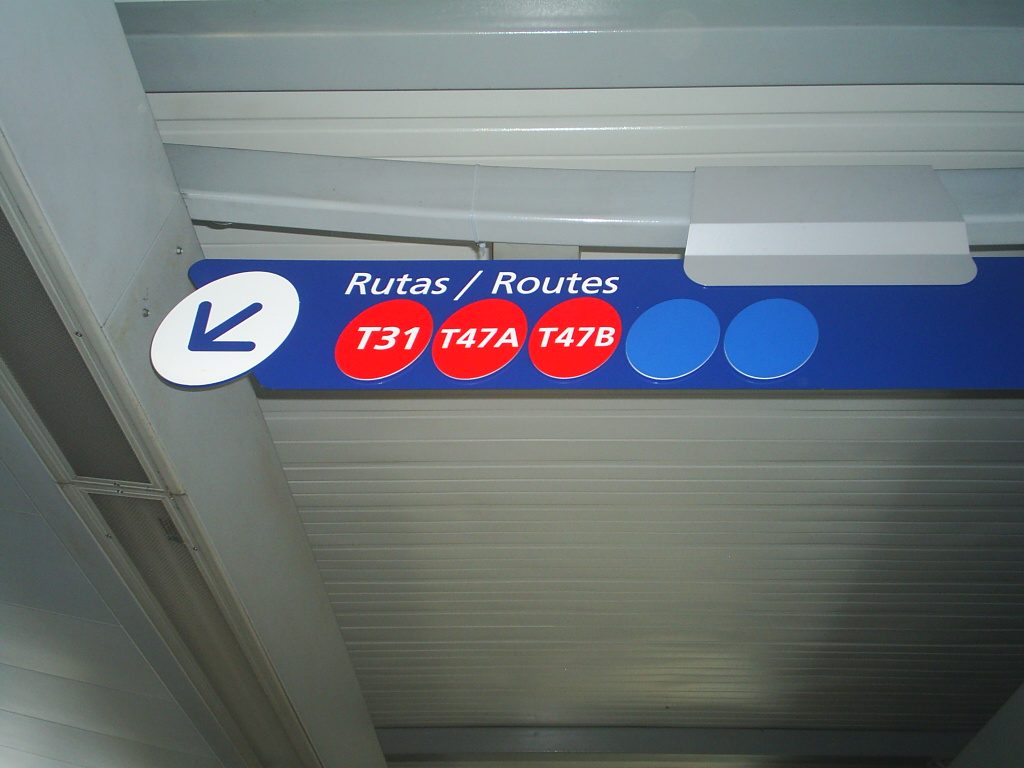 Bilingual sign in Cali, in MIO Bus Station